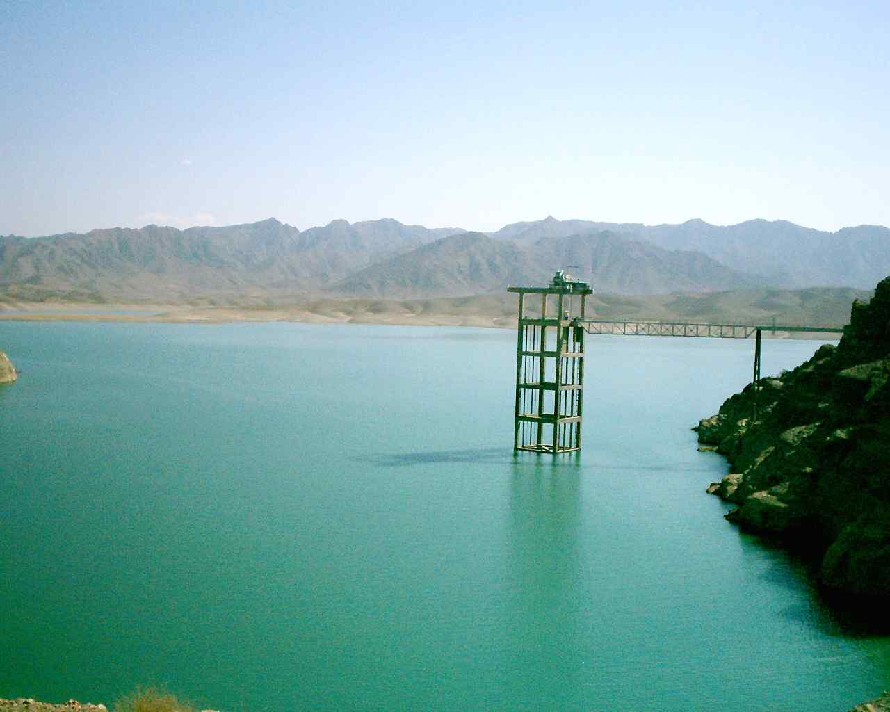 The Kajaki Dam in Helmand Province of Afghanistan